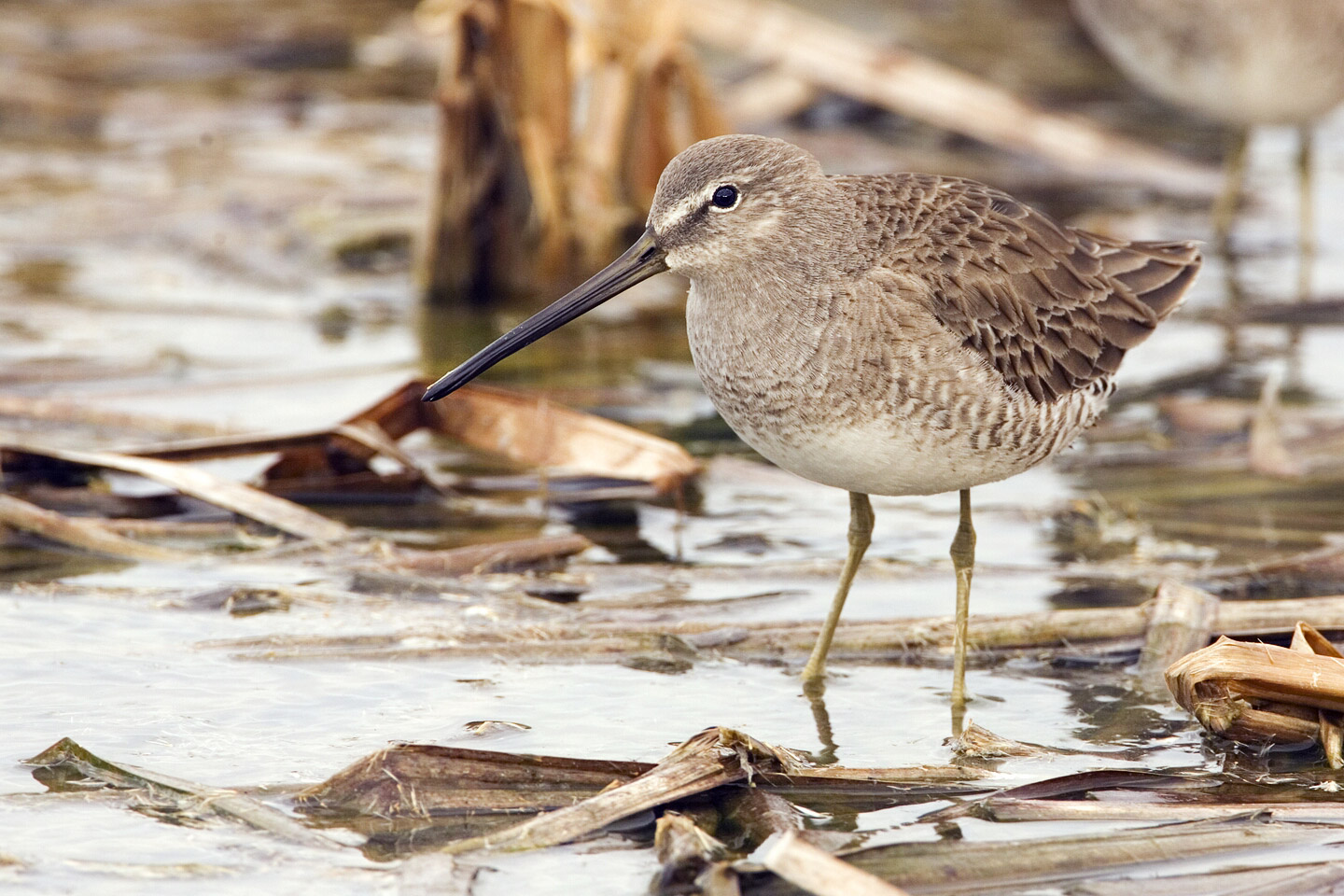 Long-Billed Dowitcher, Birding Center, Port Aransas, Texas